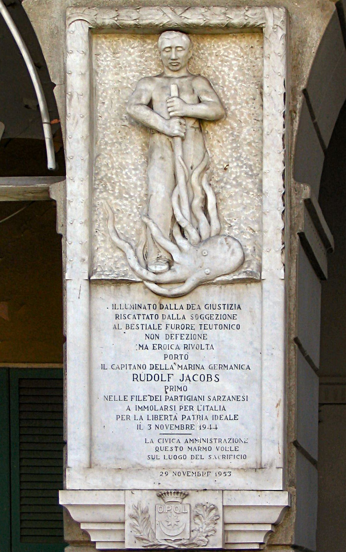 The photo shows the monument to the german captain Rudolf Jacobs, who fought the Nazis aside the italian partisans, in 1944. It is in Sarzana, Liguria, Italy.